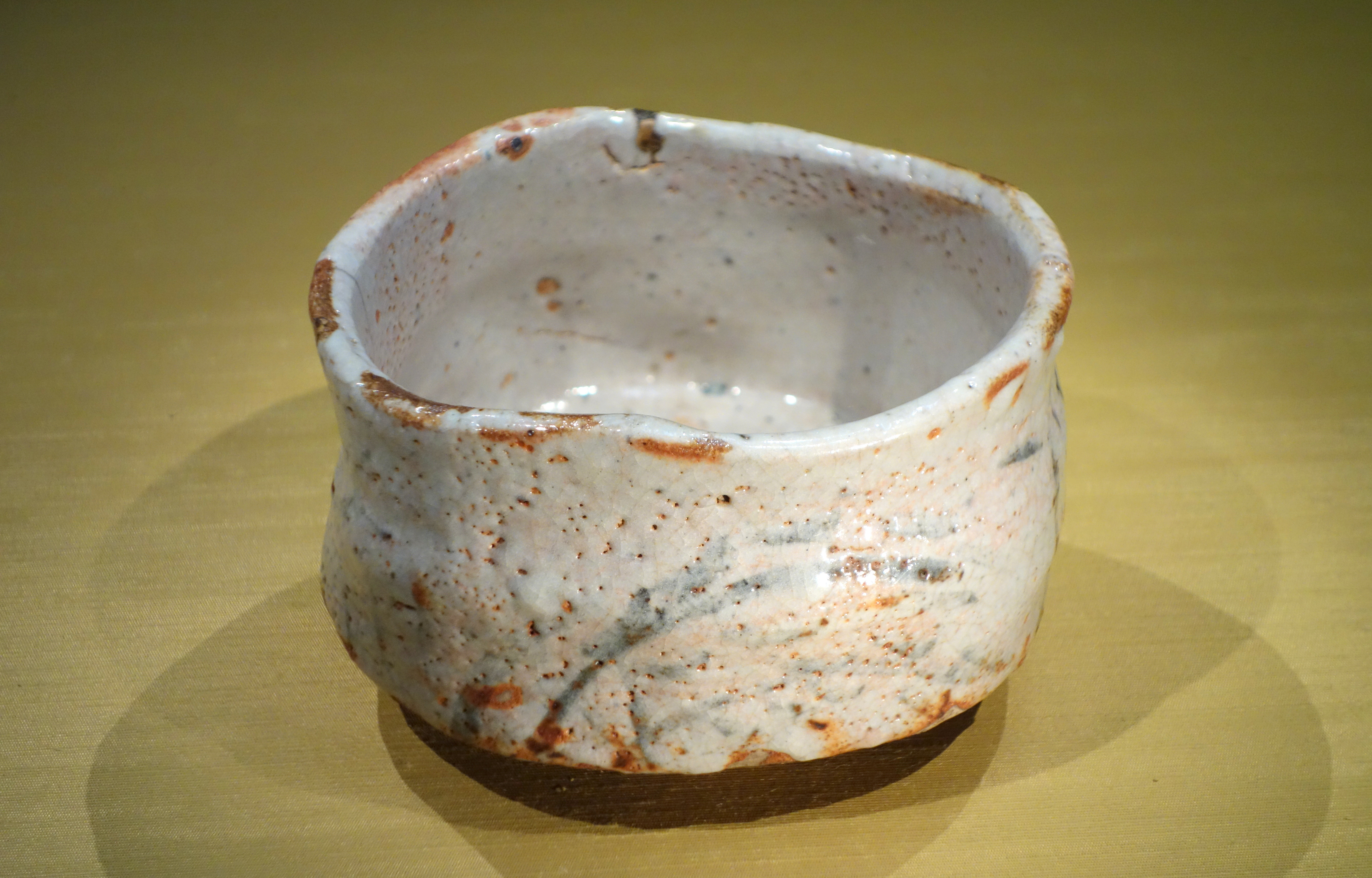 Exhibit in the Tokyo National Museum, Tokyo, Japan. This artwork is old enough so that it is in the public domain.